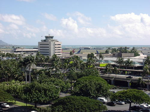 Honolulu International Airport